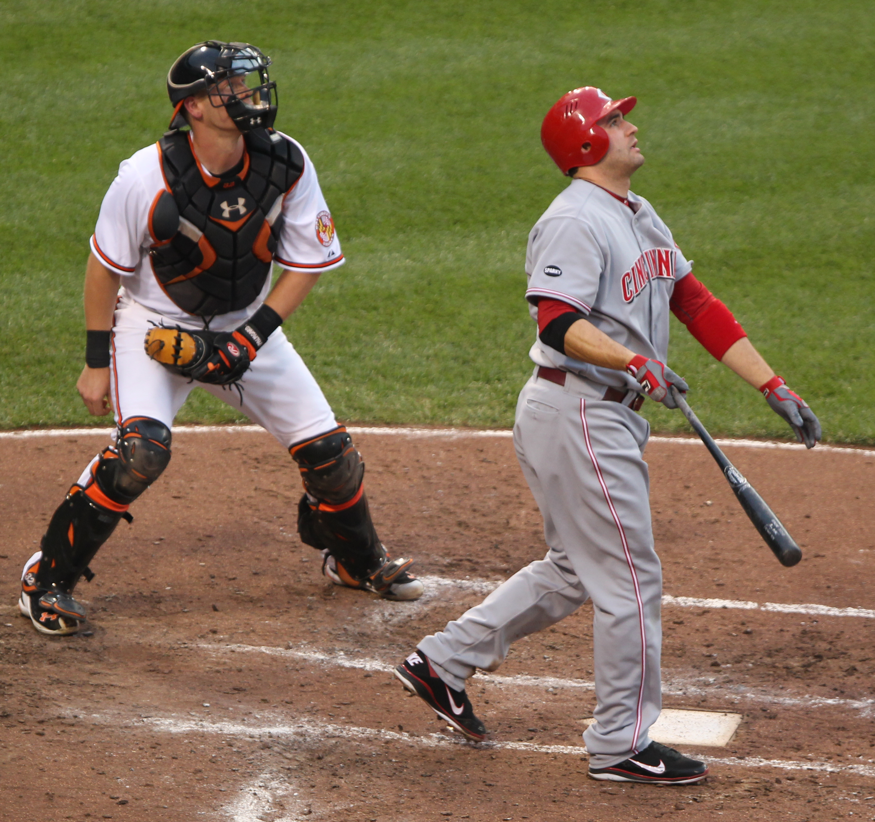 Joey Votto (right) and Matt Wieters